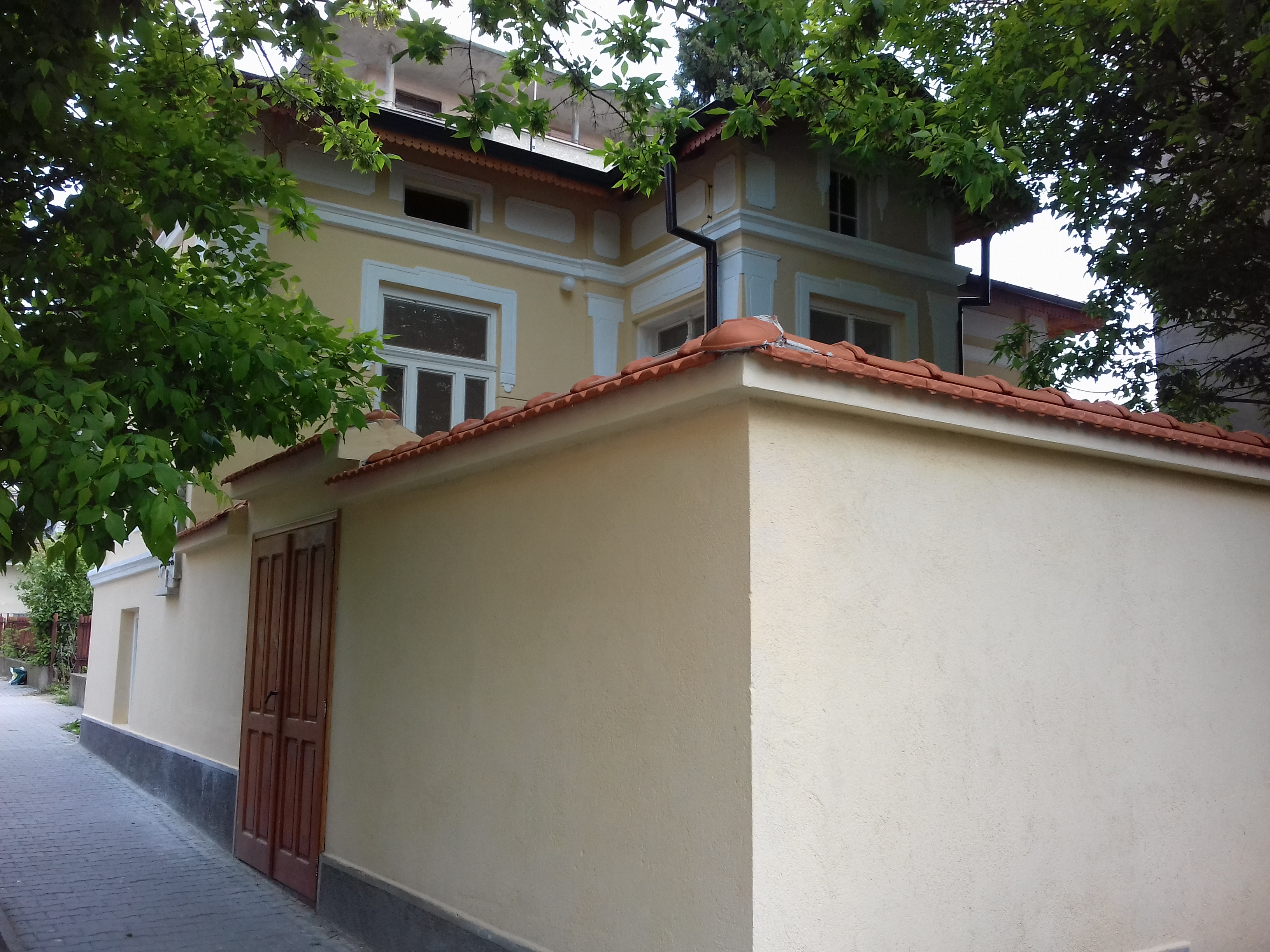 Nikolay Liliev's house in Stara Zagora, Bulgaria.